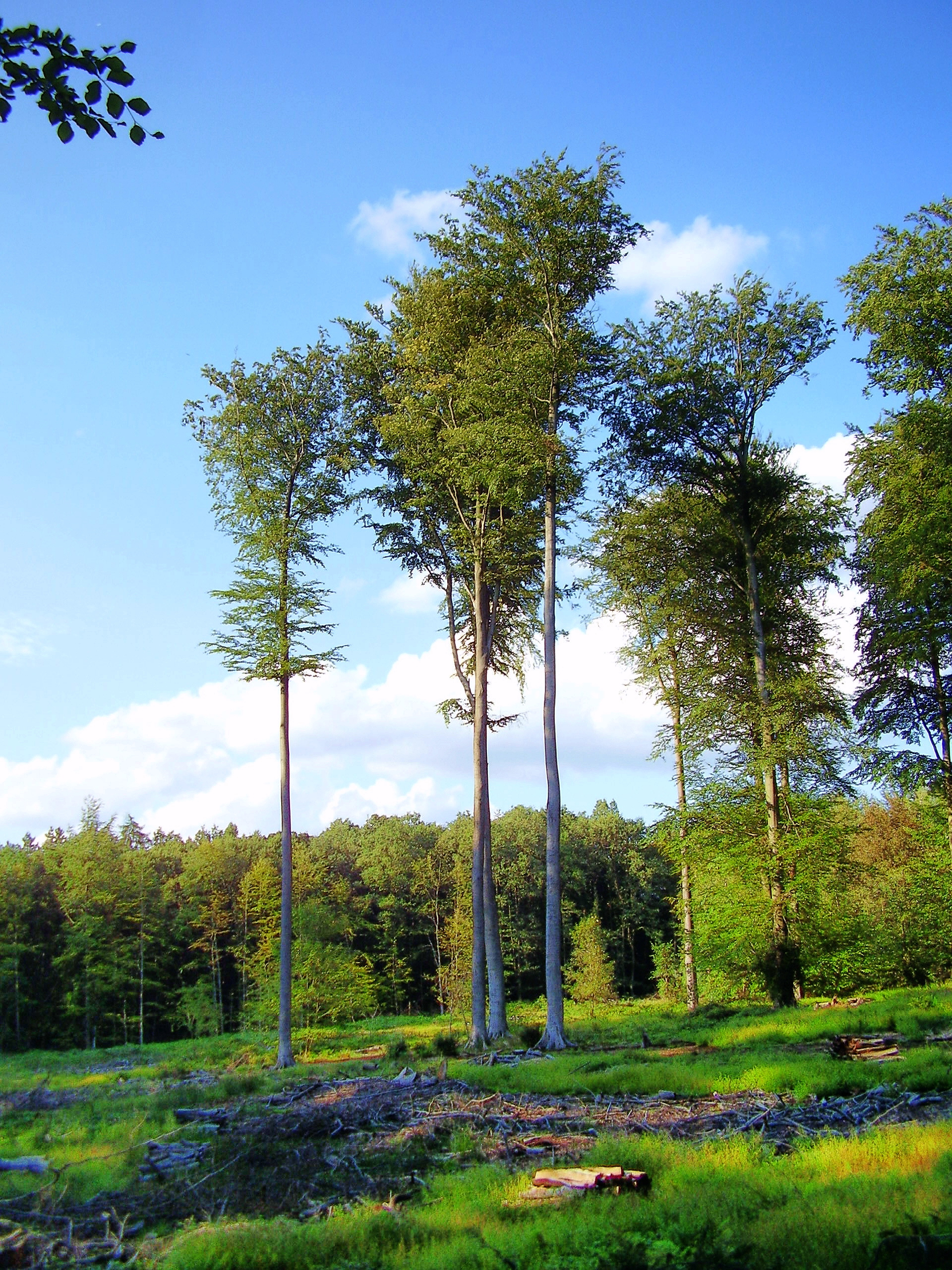 Description: Forêt de Soignes (Bruxelles) Author: User:Ben2 Date of creation: 29 août 2006 Source: Photo personnelle